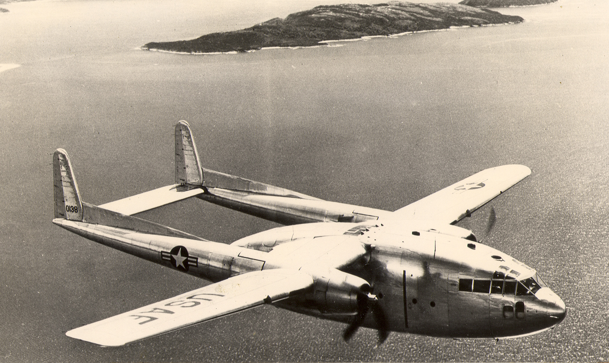 A U.S. Air Force Fairchild C-119C-19-FA Flying Boxcar (s/n 50-138) in flight.Original description: An Air Force C-119 "Flying Boxcar," once considered the workhorse of the Air Force Reserve, was part of the Continental Air Command's first Airlift Rodeo on Oct. 5, 1956.